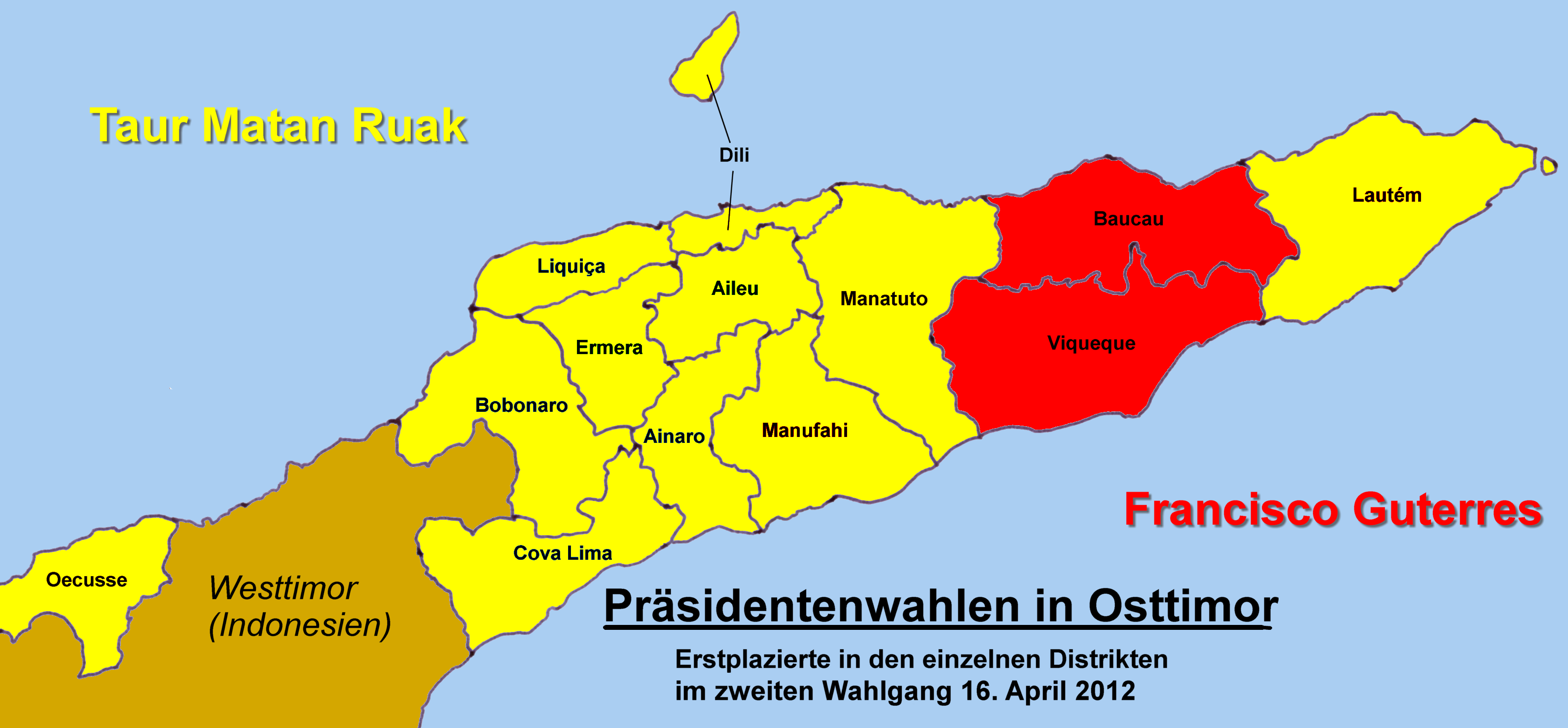 Results of president elections in East Timor 2012, second round. Strongest candidat in each district.